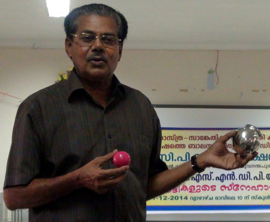 Dr CP Rajasekharan in a Science popularization class at Kollam